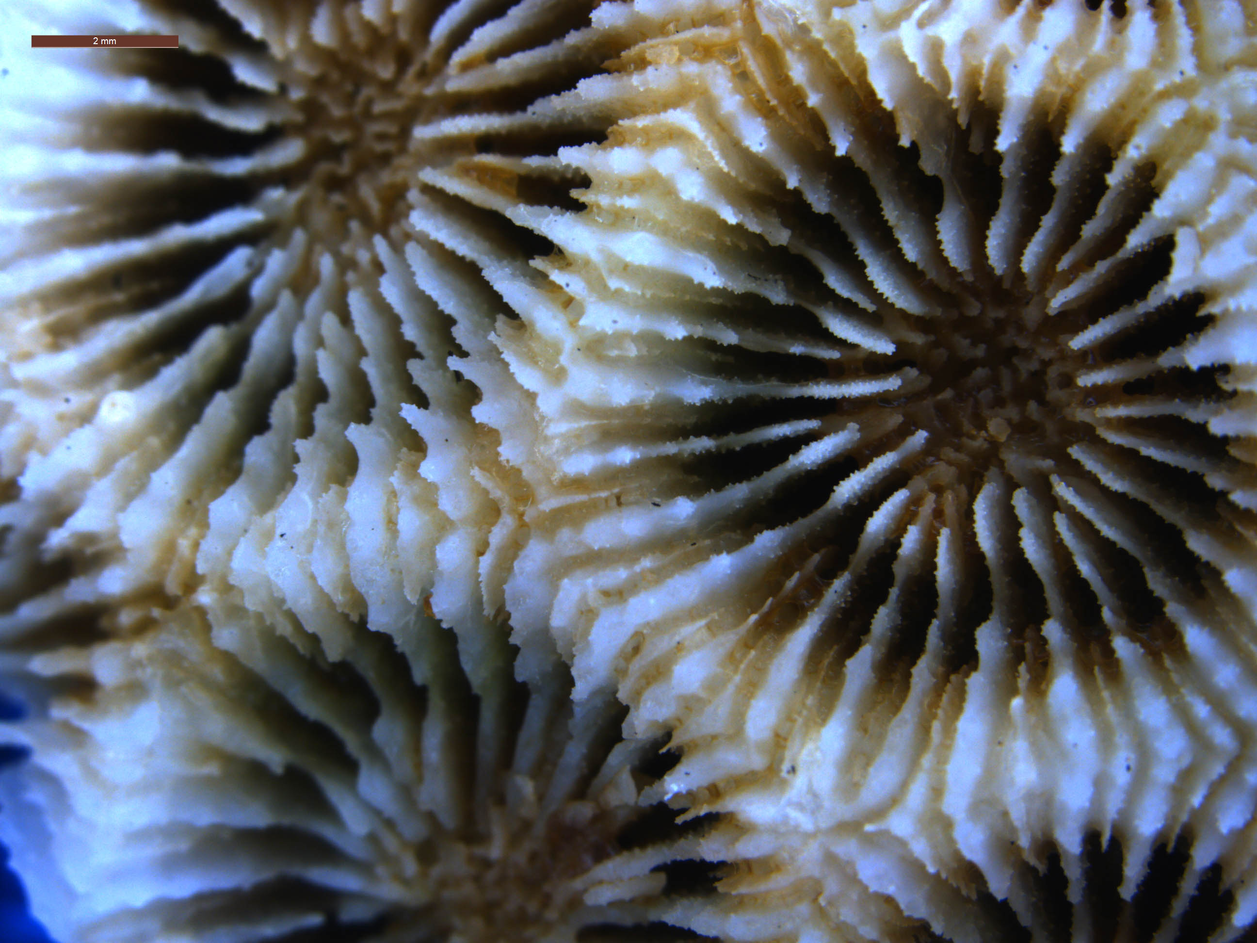 GCMP_sample_photo_733